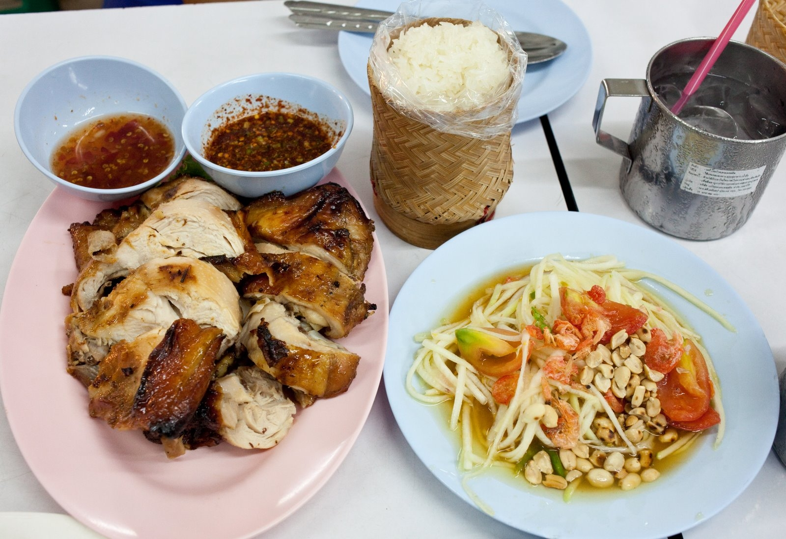 Som Tam (papaya salad), Kai Yang (grilled chicken) and Khao Niaow (sticky rice): a combination of dishes from Isarn (North East Thailand) which has become extremely popular in the whole of Thailand. It is eaten as a snack or as a lunch time meal. This photo was made at a "som tam restaurant" in Bangkok.